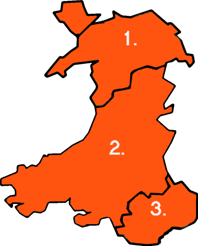 Self made based upon Image:WalesNumbered.png Key North Wales Fire and Rescue Service (Gwasanaeth Tân ac Achub Gogledd Cymru) Mid and West Wales Fire and Rescue Service (Gwasanaeth Tân ac Achub Canolbarth a Gorllewin Cymru) South Wales Fire and Rescue Service (Gwasanaeth Tân ac Achub De Cymru)